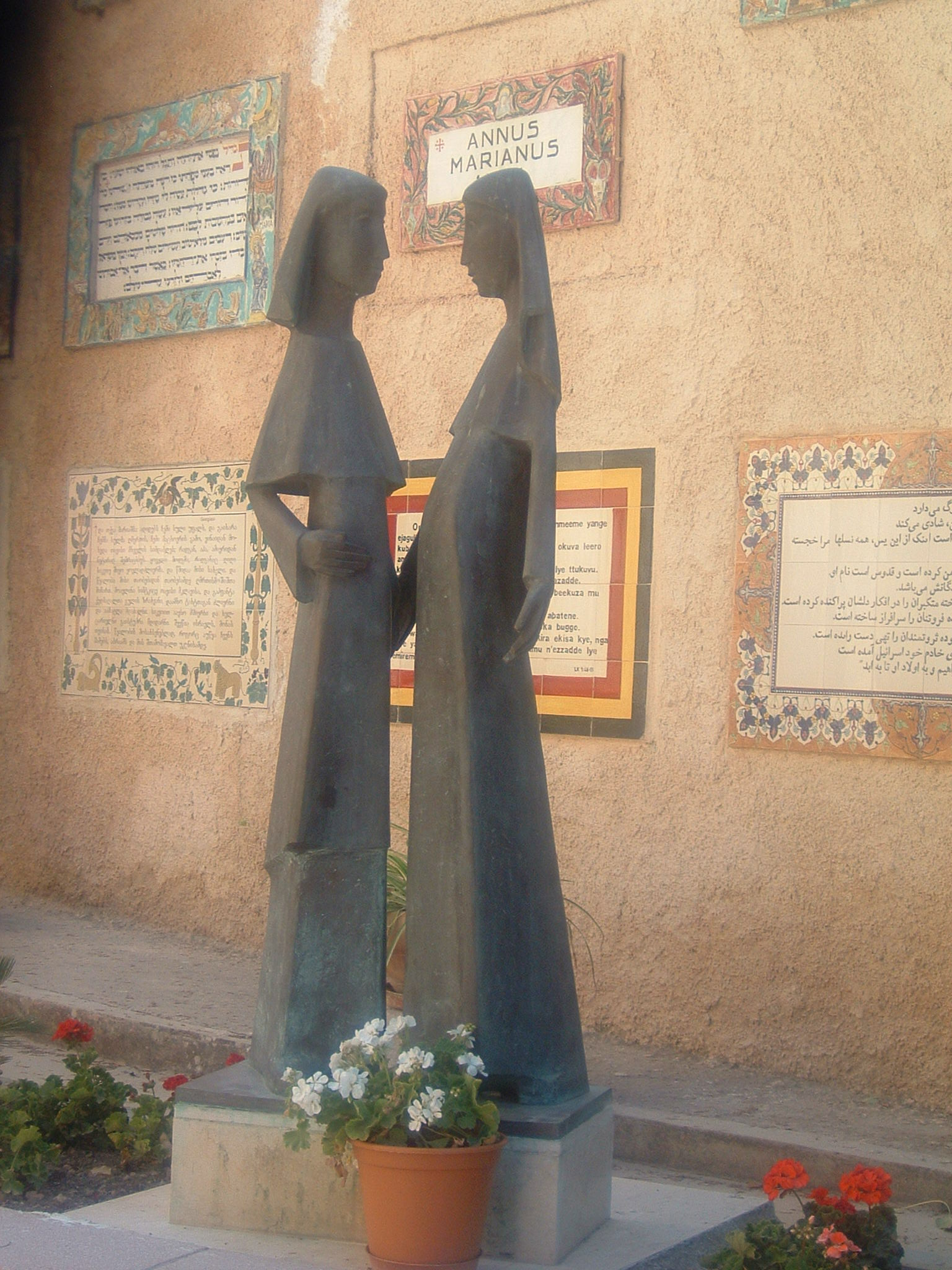 Church of Visitation, Ain Karem, Israel